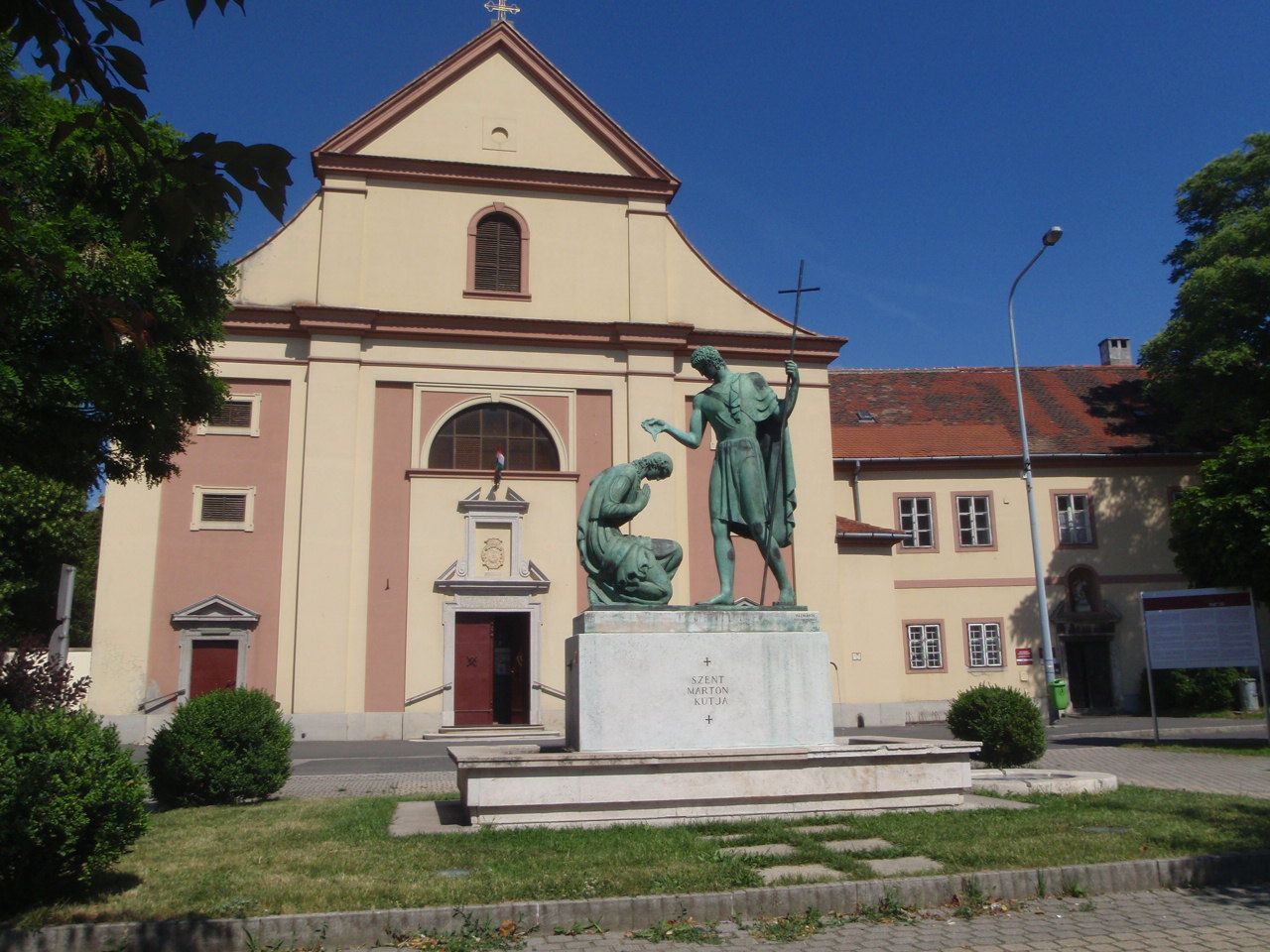 Martin of Tours's Fountain, behind the Visitors Center - Szombathely